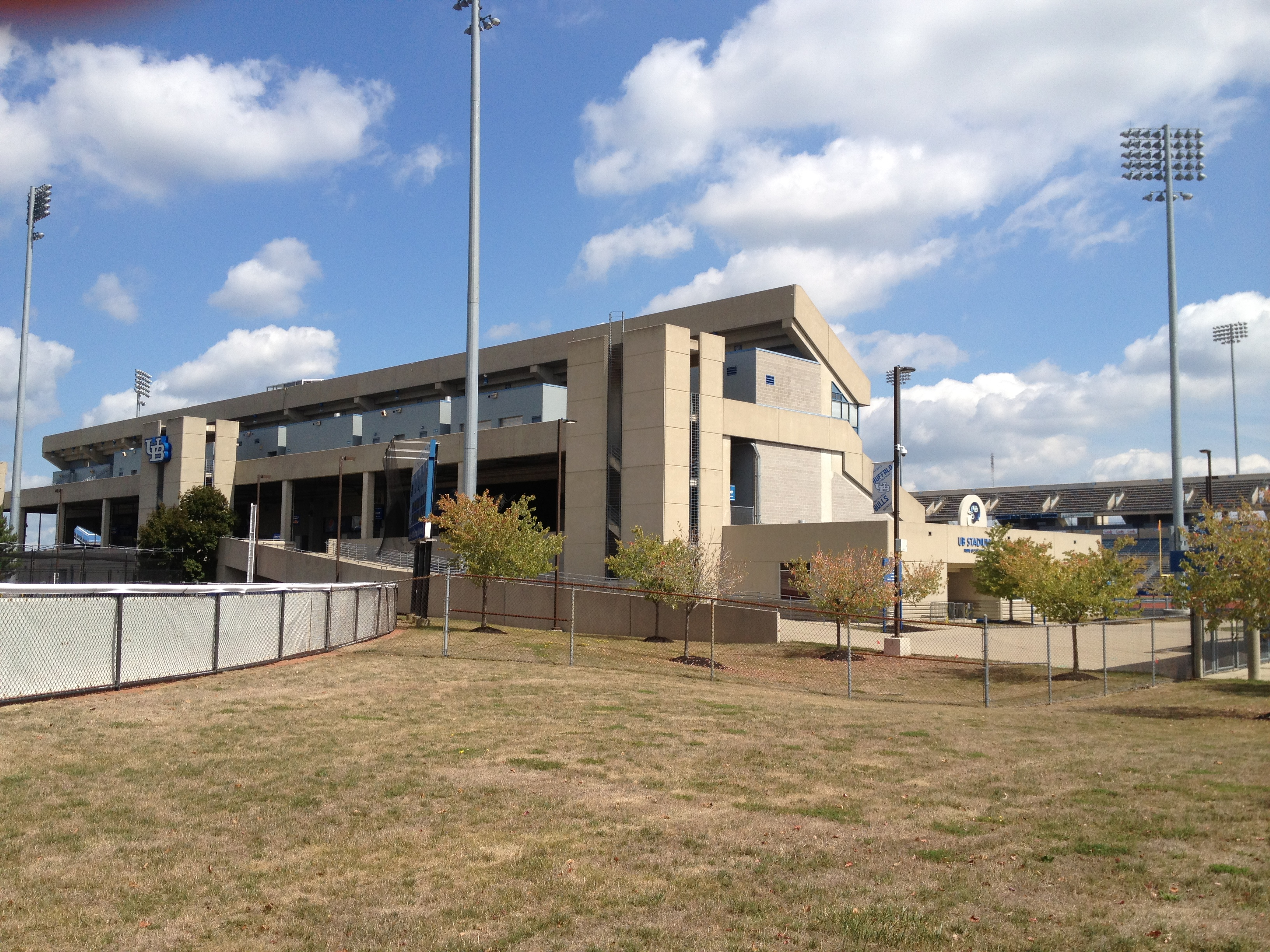 An exterior view of UB Stadium